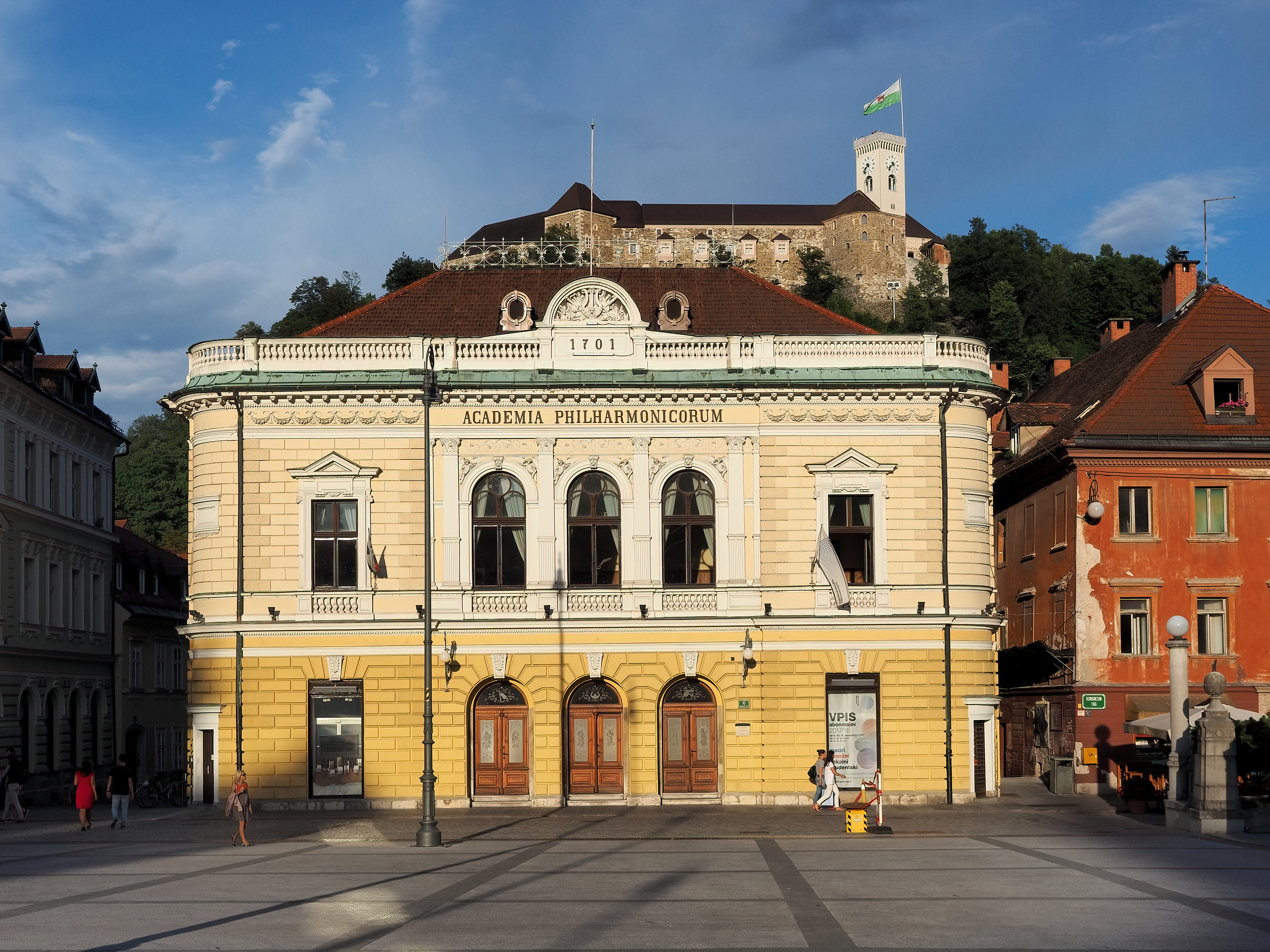 Slovenian Philharmonic Orchestra (Ljubljana) Српски (ћирилица): Словеначка Филхармонија, Љубљана.